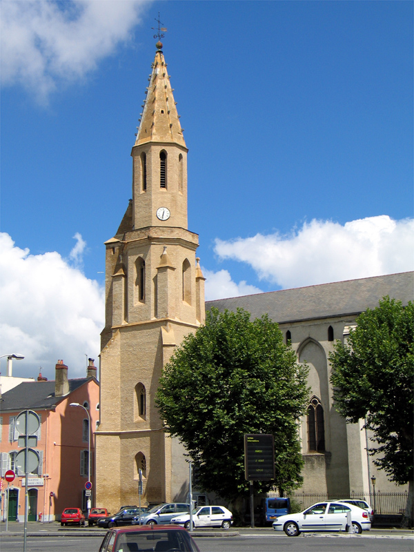 Sainte Thérèse church in Tarbes (Hautes-Pyrénées, France).